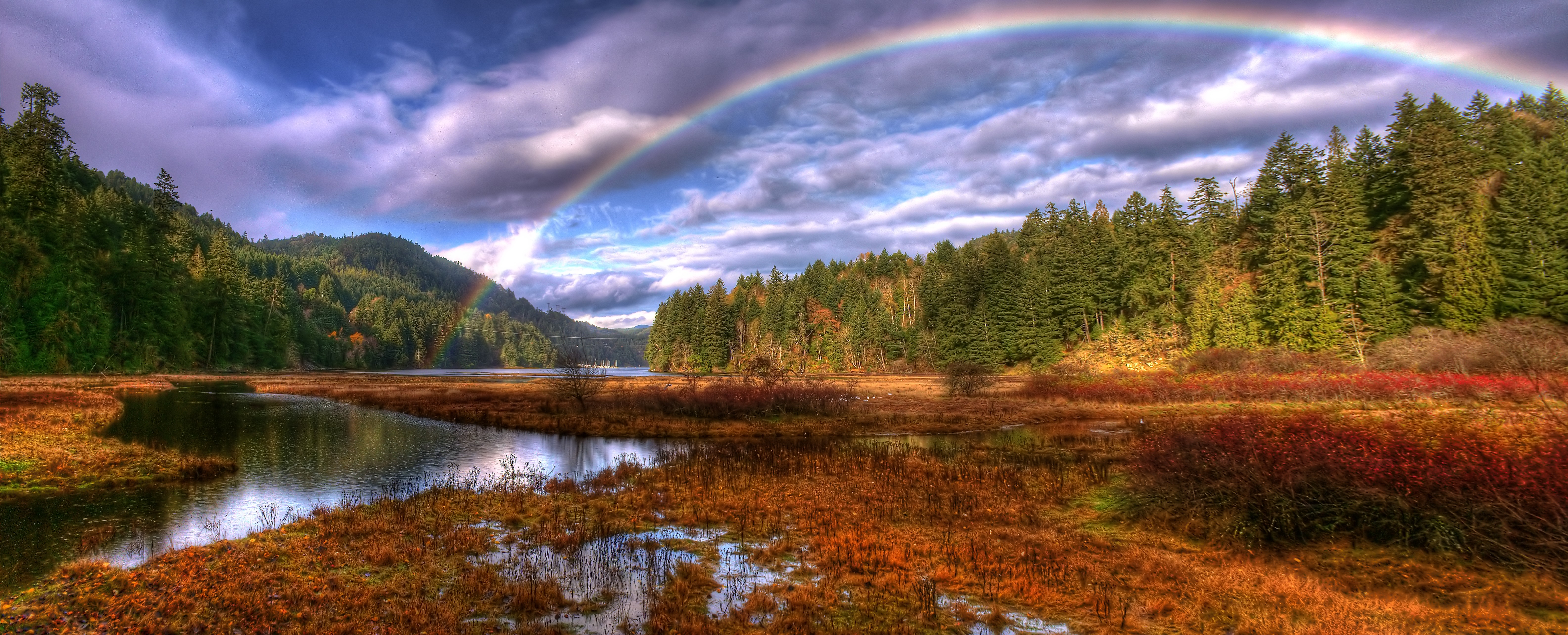 I got really lucky today, and found myself in front of this incredible scene at Goldstream Park outside of Victoria B.C. Right as I got there the rainbow started to appear, as If a gift just for me. =D And it got even better from there... This marsh is currently filled with bald eagles. Everywhere you looked, there they were.... Just waiting for the salmon coming to spawn. I got the once in a lifetime opportunity to get a bald eagle and the rainbow in the same frame. That will be my post for tomorrow. =)